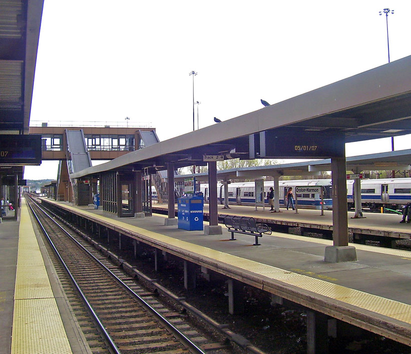 Photographed by Daniel Case 2007-05-01.